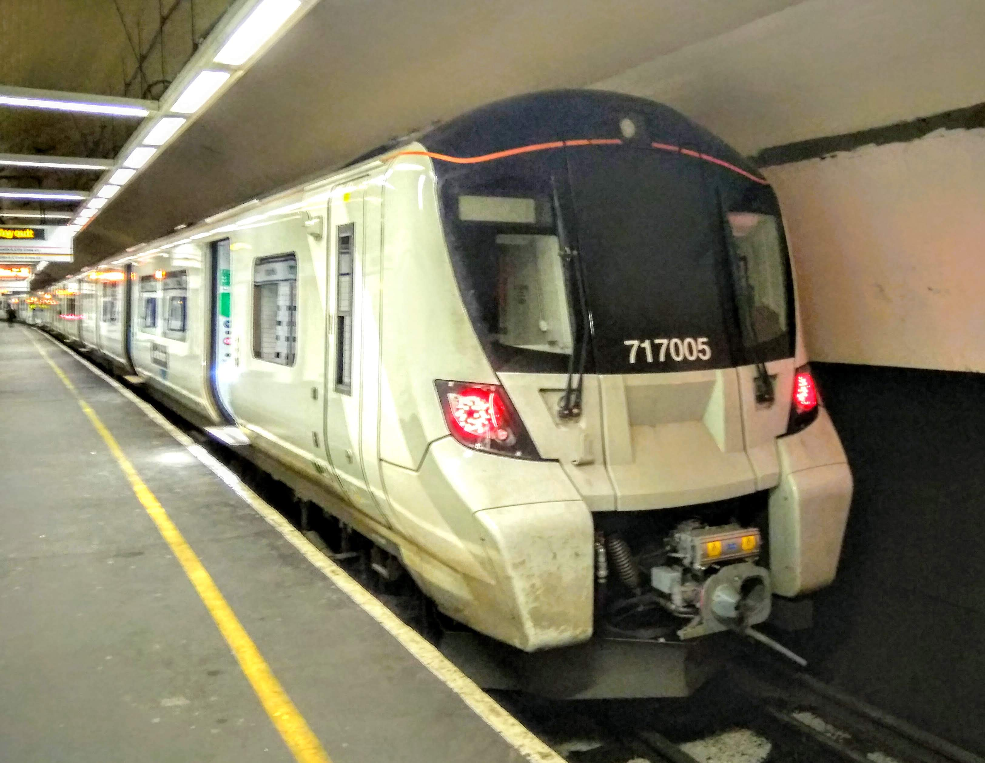 Great Northern Class 717 unit 717005 at Moorgate station in London